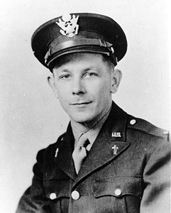 Herman Gilbert Felhoelter, casualty of the Chaplain-Medic massacre